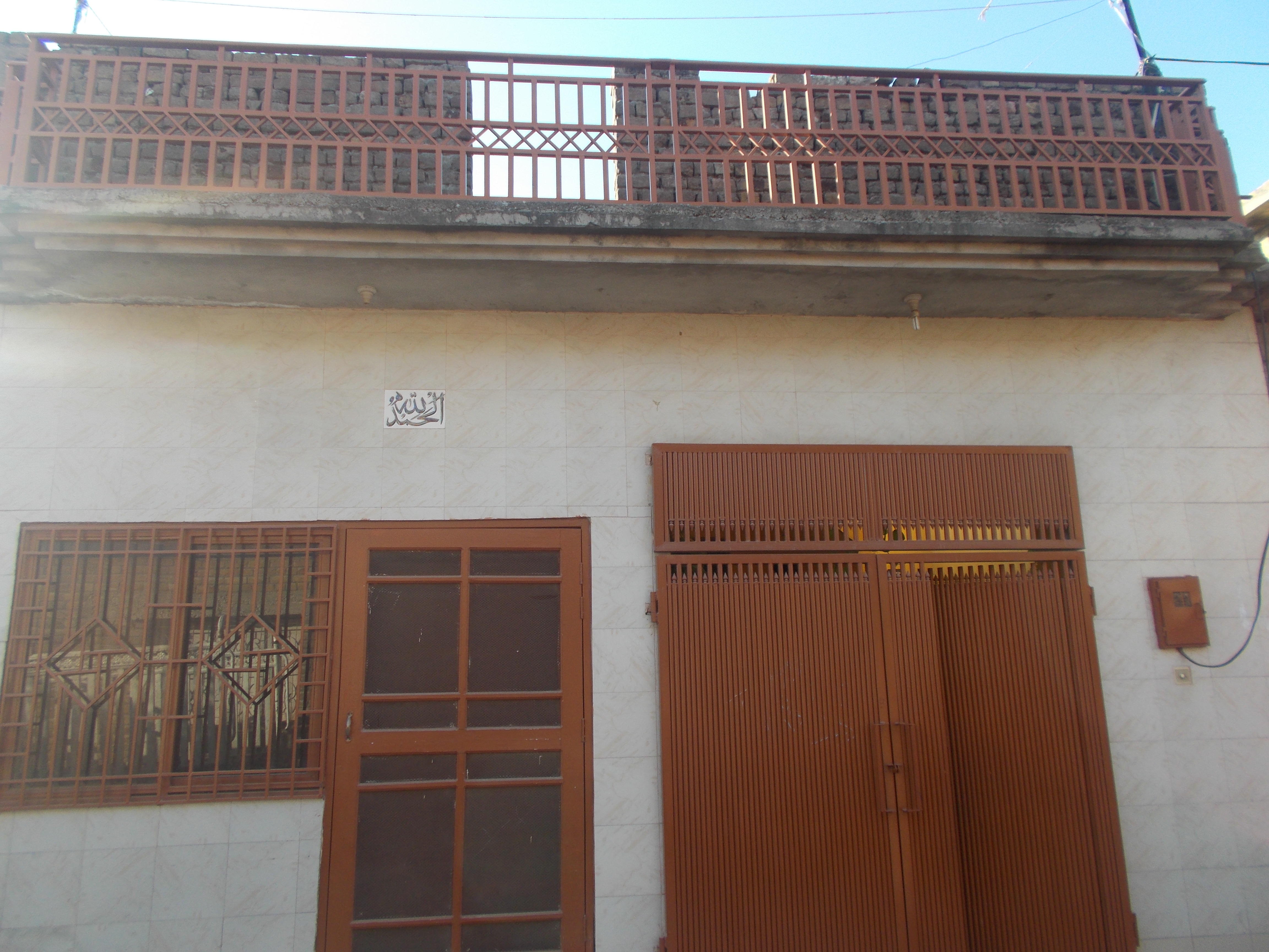 Railway Housing Scheme 1-A Chaklala Ghulam Haider Blogger Pak Blogz Shouted Blog